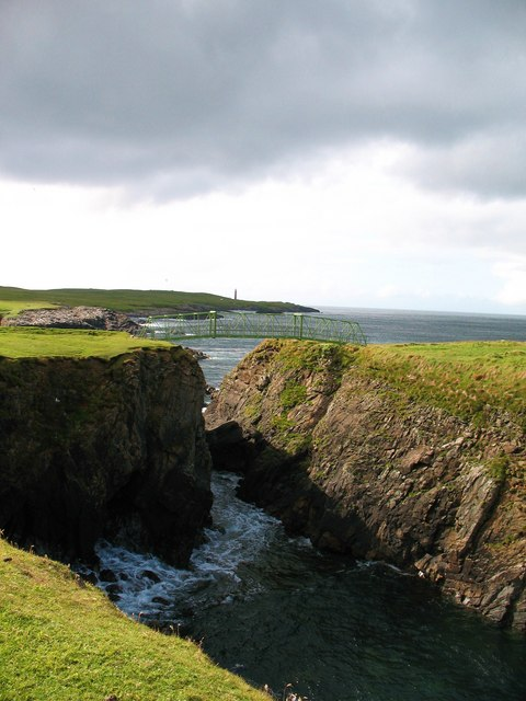 Bridge to Dun Eistean The footbridge links Lewis with the tiny islet of Dun Eistean, on which are the remains [turfed over footings and a little masonry] of a medieval defended site associated with the Clan Morrison. Musket balls and pistol shot have been recovered from the site, suggesting a battle with the MacKenzies around 1595.